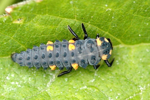 Picture taken in Commanster, Belgian High Ardennes . Species: Coccinella 7-punctata larva